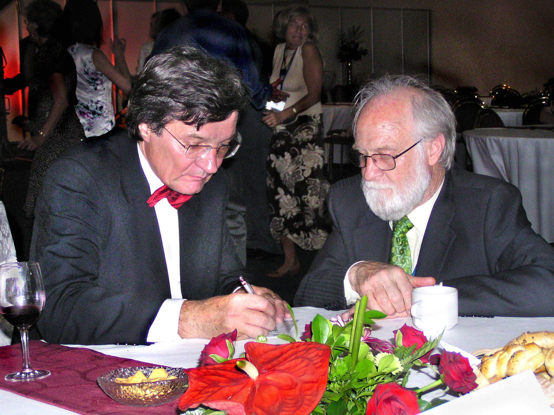 Jan Palous, chairman of the National Organizing Committee, and Ronald Ekers, president of IAU. Farewell Dinner of the IAU 26th General Assembly, Prague